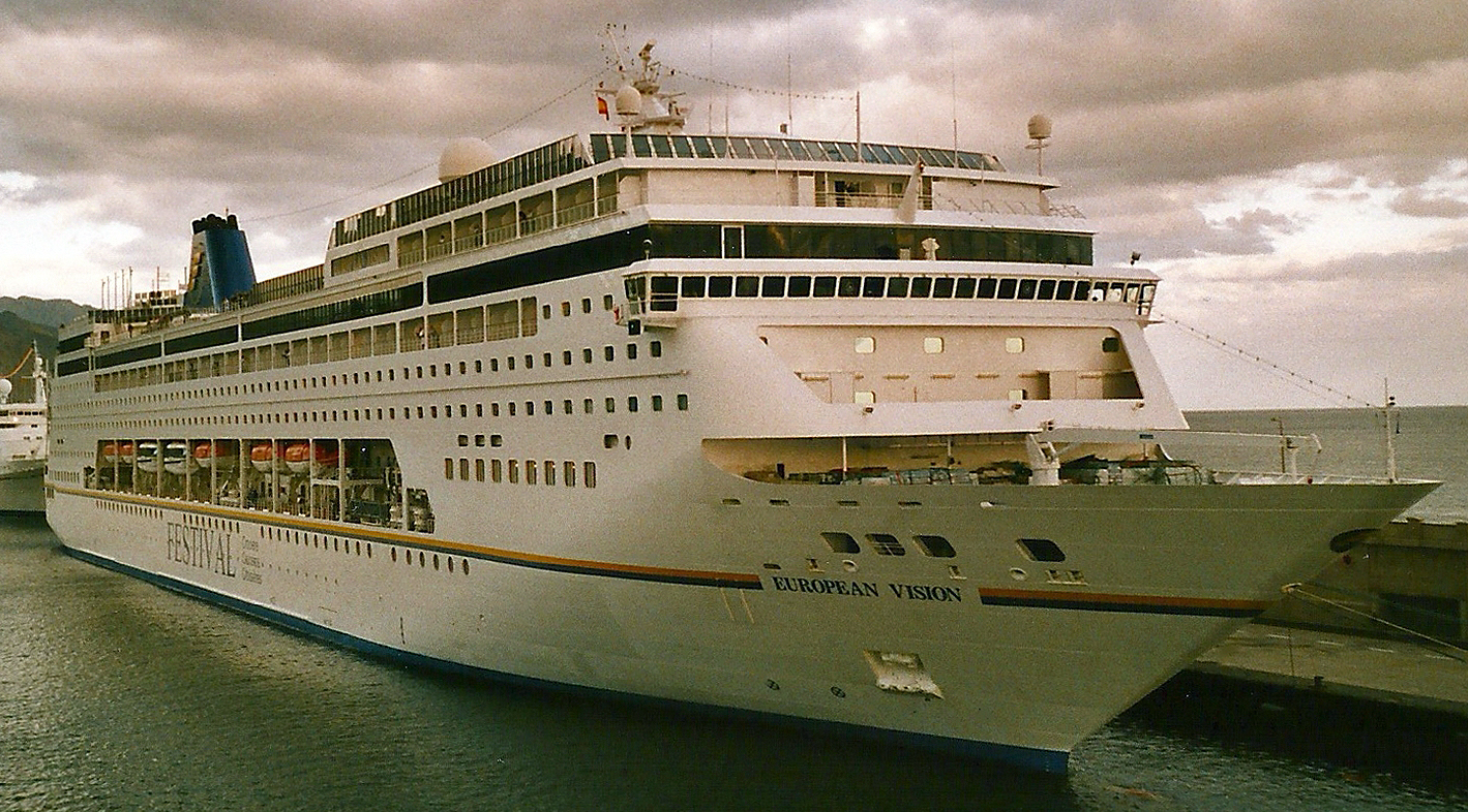 Cruise ships European Vision, and Carousel in Puerto de Santa Cruz de Tenerife